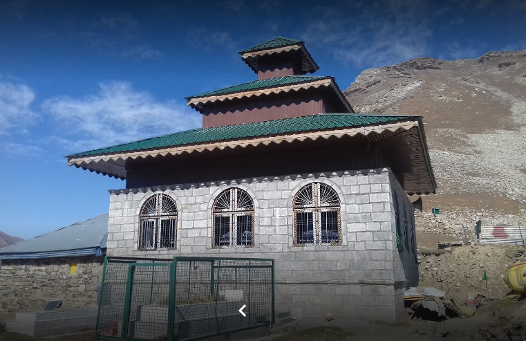 saint Nund Rishi meditating place. As the mark of His presence, Shrine has the imprints of his hands on a big stone inside it and later local body constructed a shrine